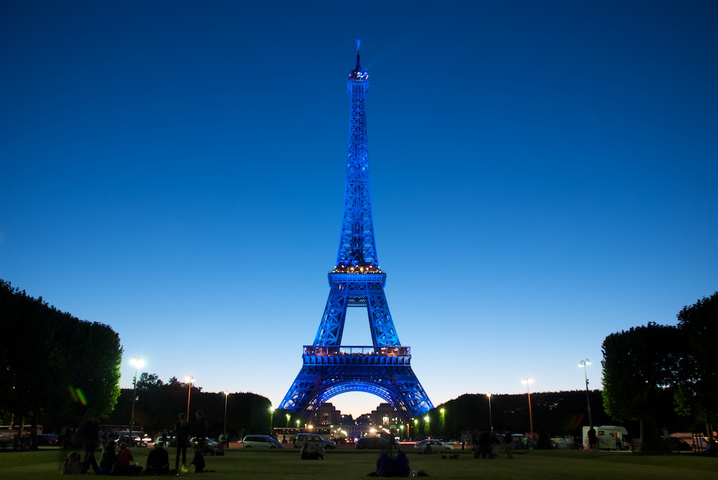 Blue Eiffel Tower with blue sky after sunset. Celebrating France's presidency of the European Union.